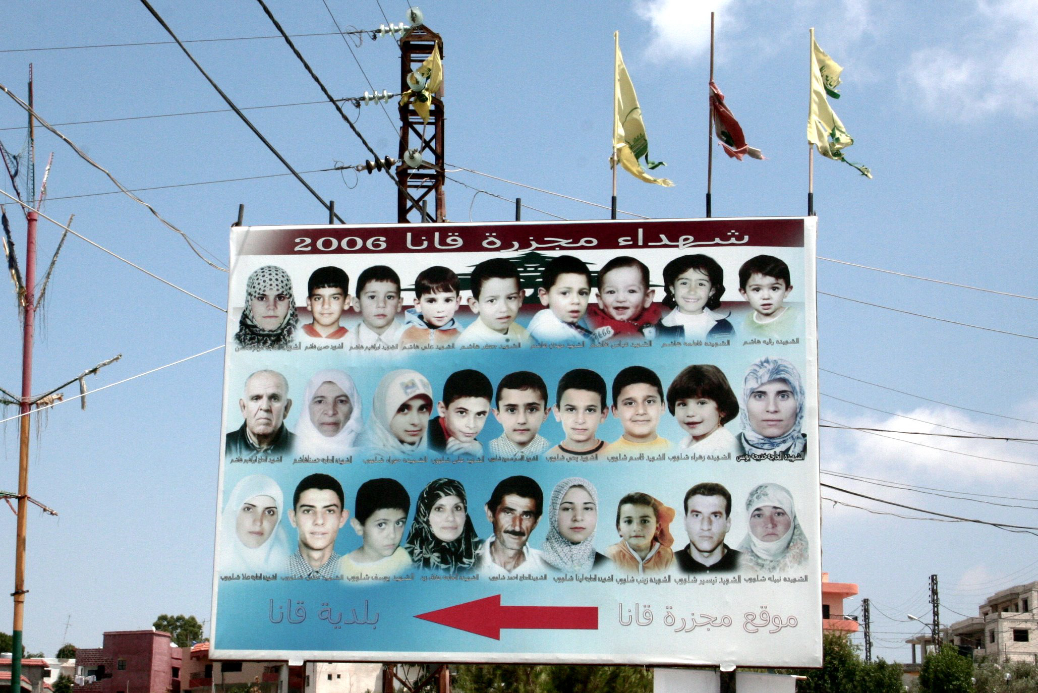 Commemorative sign for the victims of the Israeli airstrike against Qana, Lebanon on 30 July 2006.